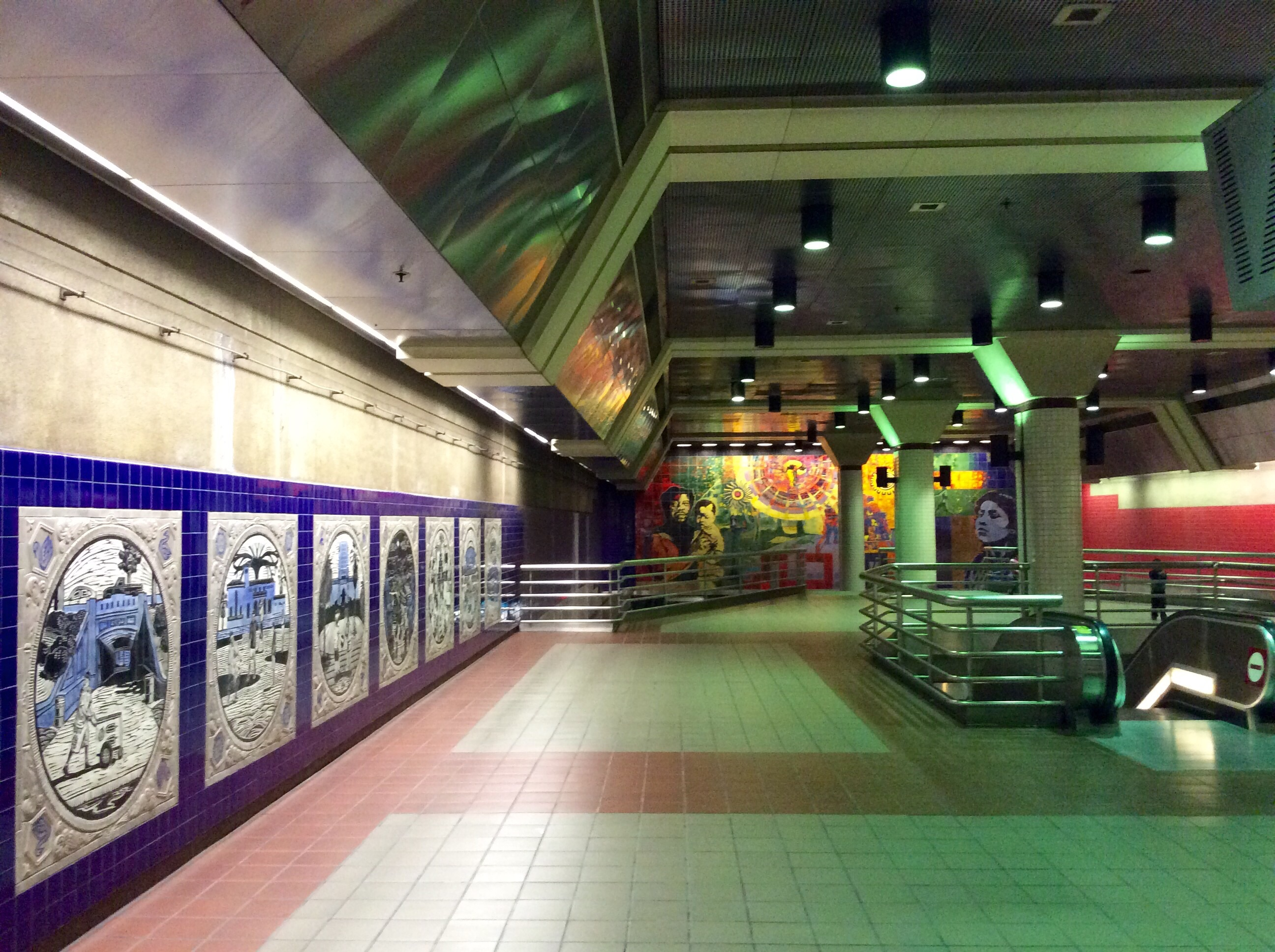 The upper floor view of Westlake/MacArthur Park Station.